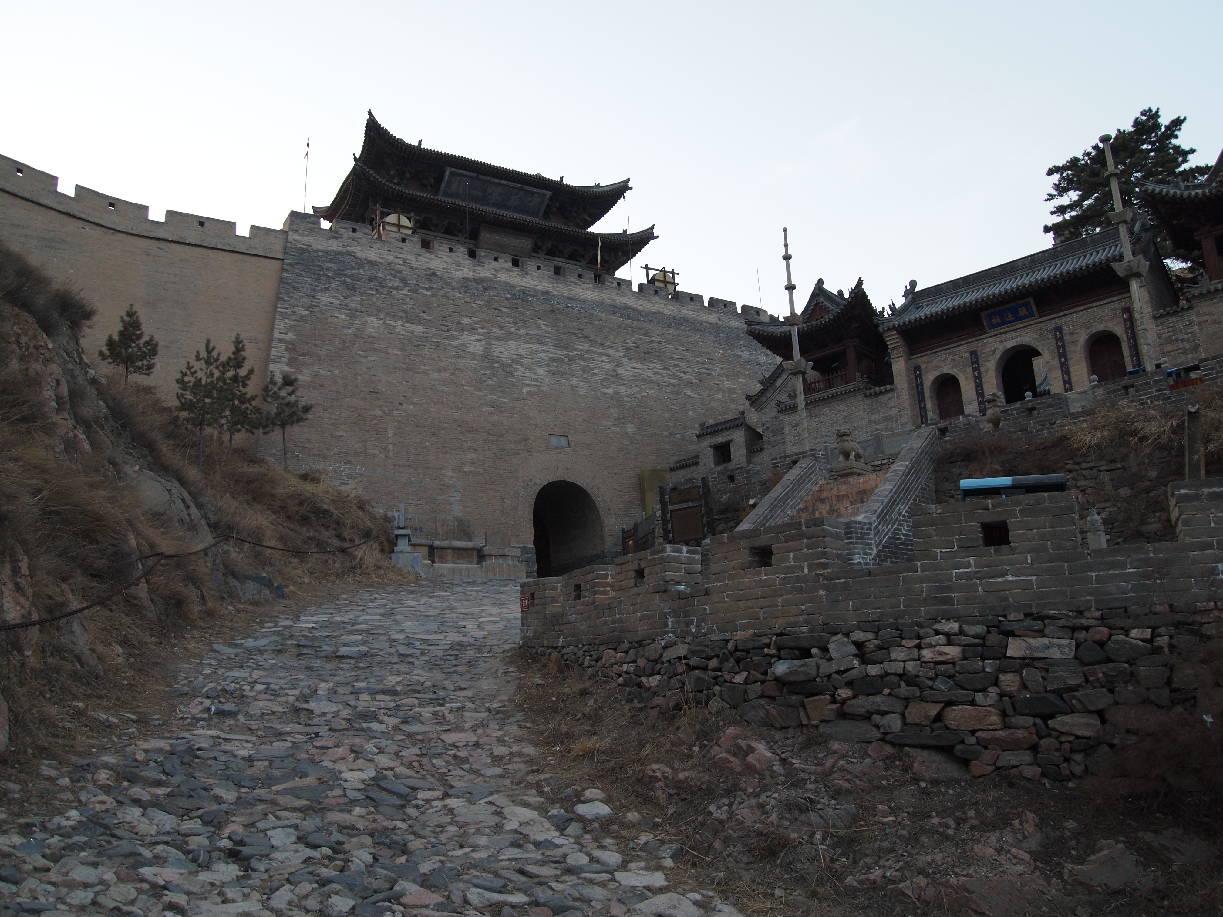 The Great Wall at Yanmen Pass